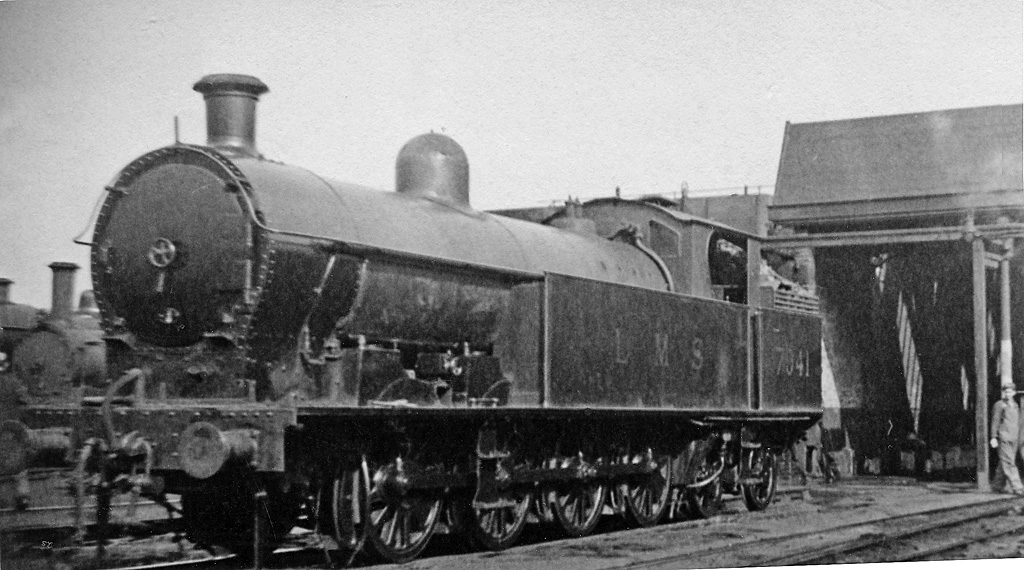 Swansea Paxton Street Locomotive Depot: an 0-8-4T. Ex-London & North Western Bowen-Cooke 7F 0-8-4T No. 7941 was employed on the steeply graded line up to Pontardulais, the extremity of the Central Wales Line to Swansea Victoria which was closed to passengers on 15/6/64, to goods on 4/10/65. (The friendly Shed Foreman had this engine proudly positioned for me to photograph).